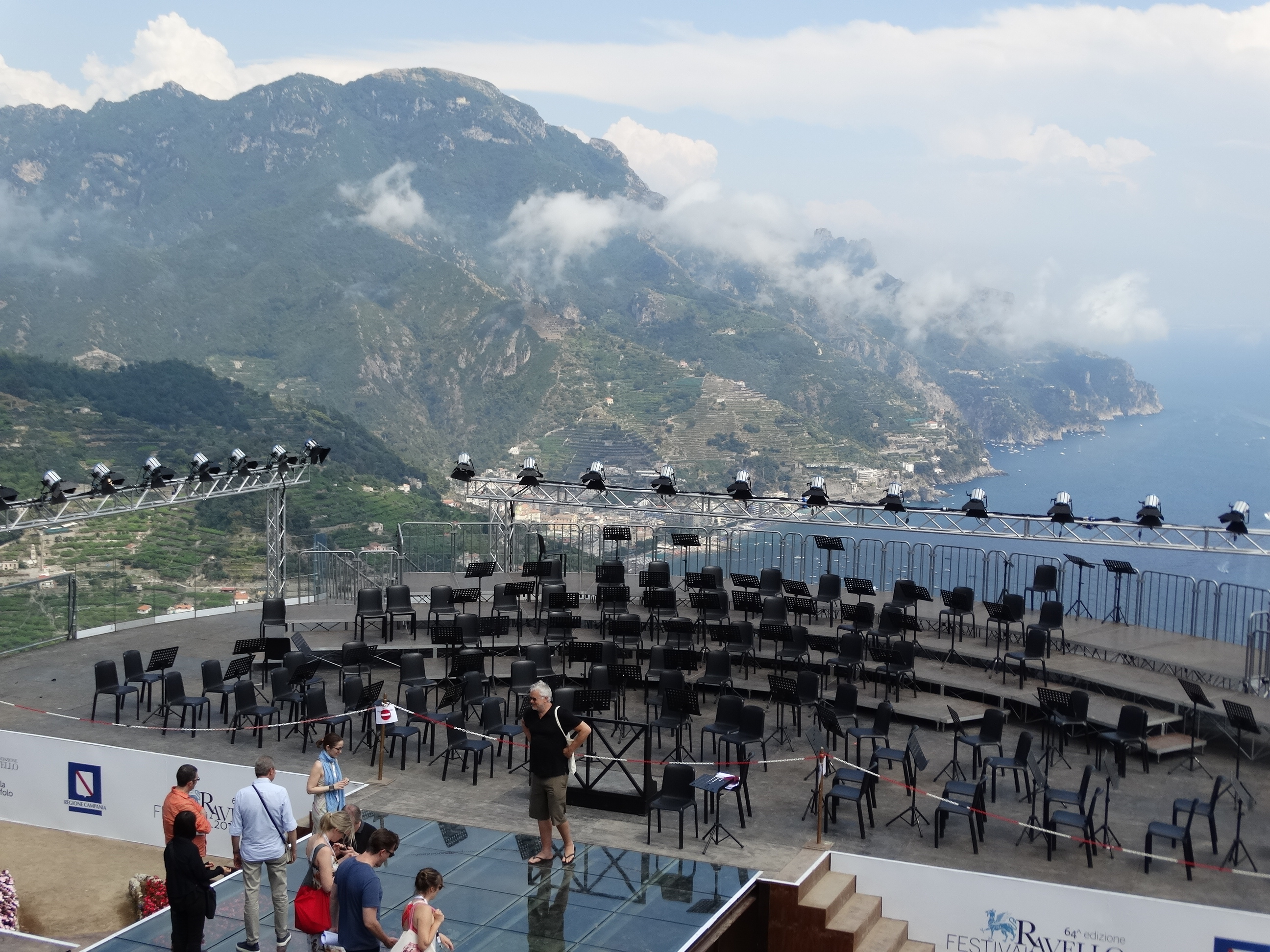 Tim Robbins on the stage at Villa Rufolo, Ravello, Italy. Ravello 2017 Festival